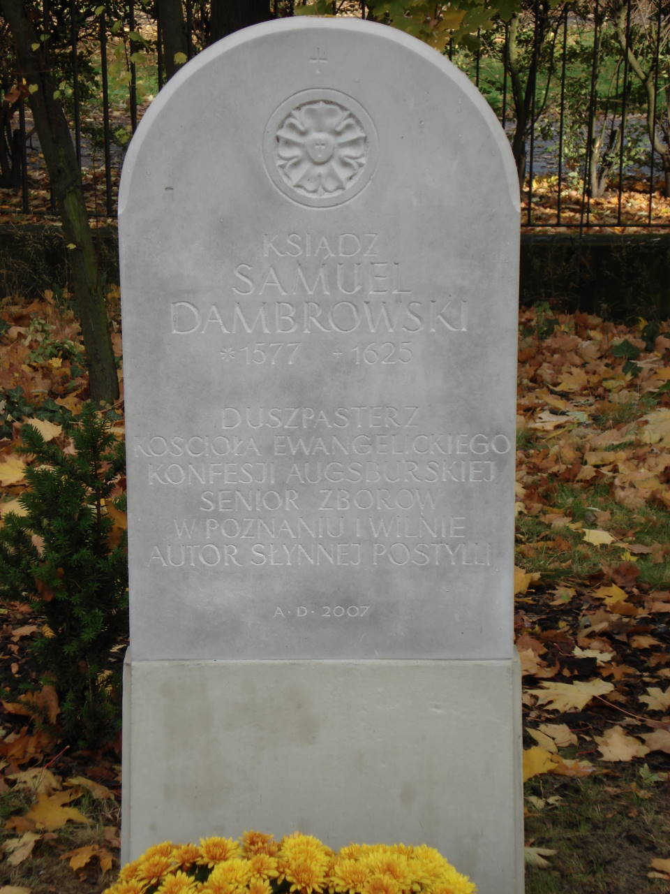 Memory desk for Rev. Samuel Dambrowski (1577-1625) near the Evangelical-Augsburg Church in Poznań, 2007